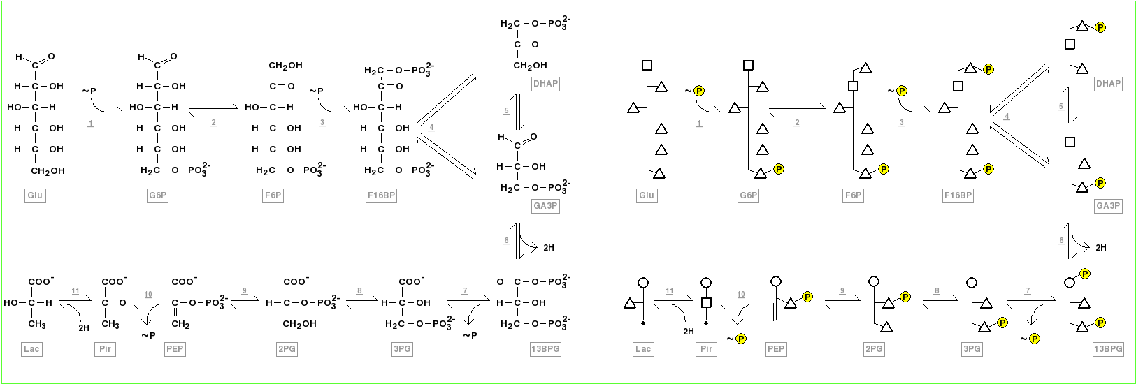 Glycolysis components using Fischer representation comparing to polygonal model. The last form is easier and faster to read and write, and shows with clarity each change of the intermediates in the reactions.